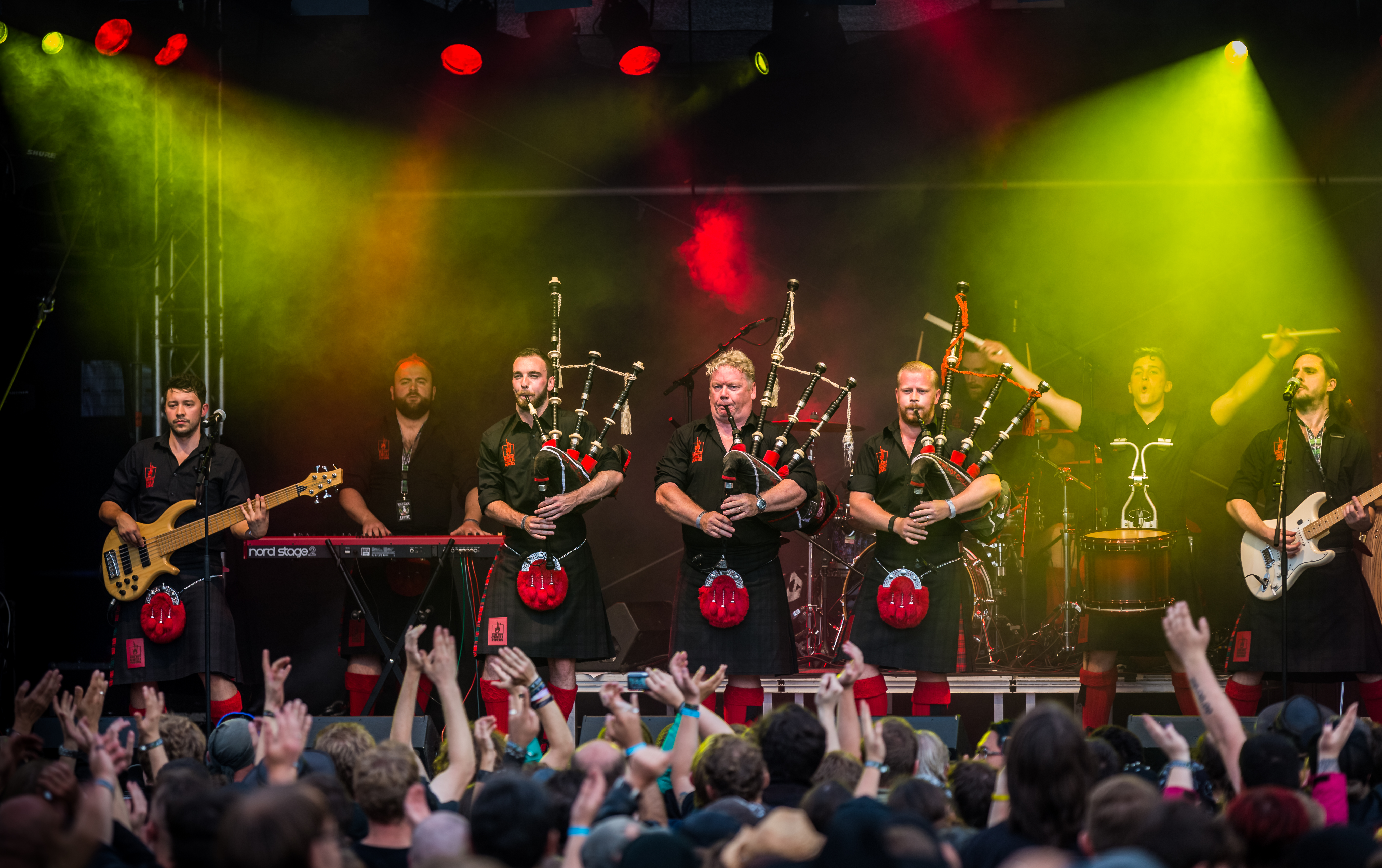 Red Hot Chilli Pipers - Wacken Open Air 2016